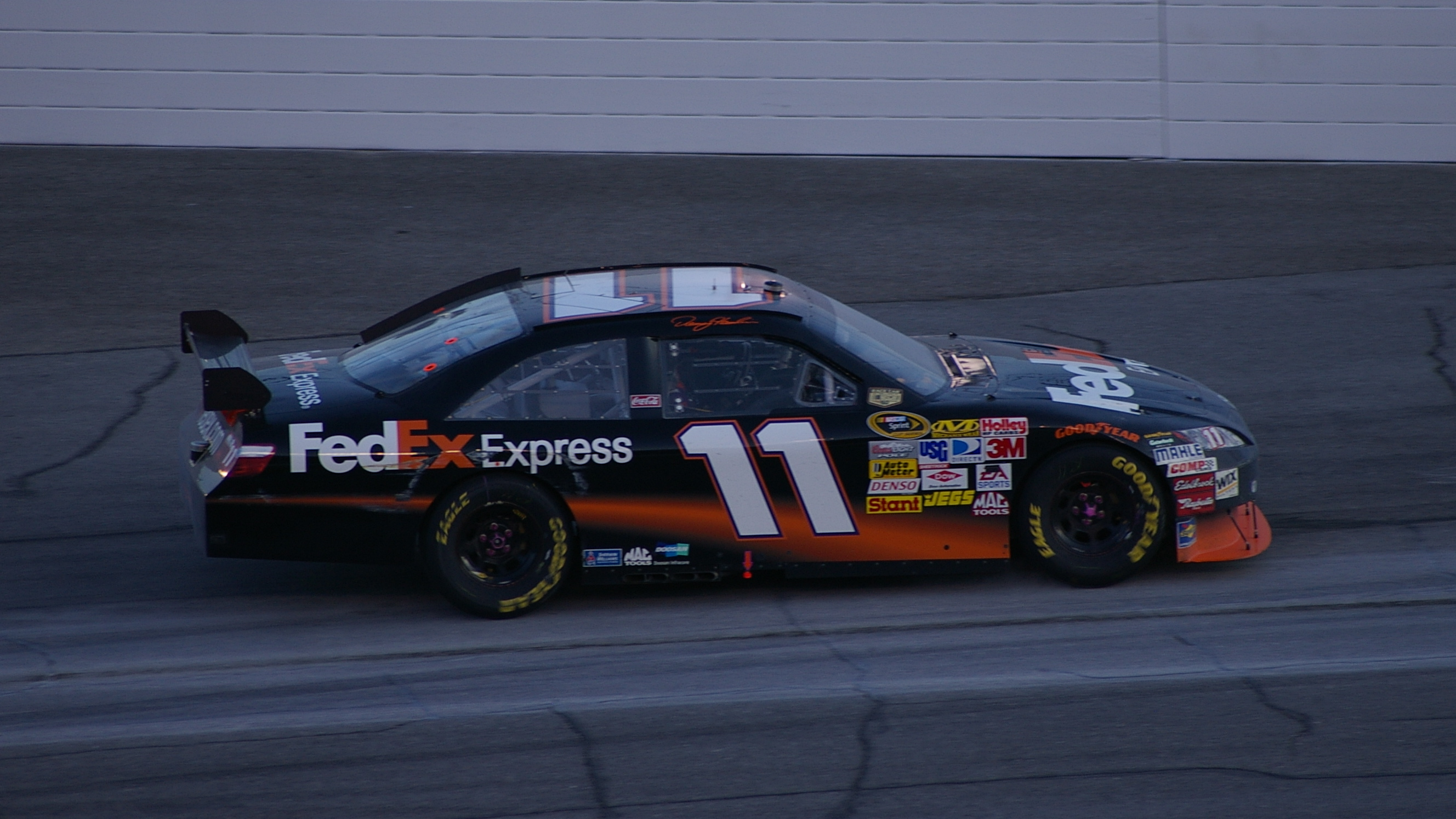 Denny Hamlin celebrating after winning the second Gatorade Duel.